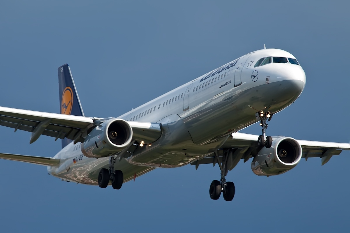 D-AISH - 3C6668 - Lufthansa - Airbus A321-231 (3265)